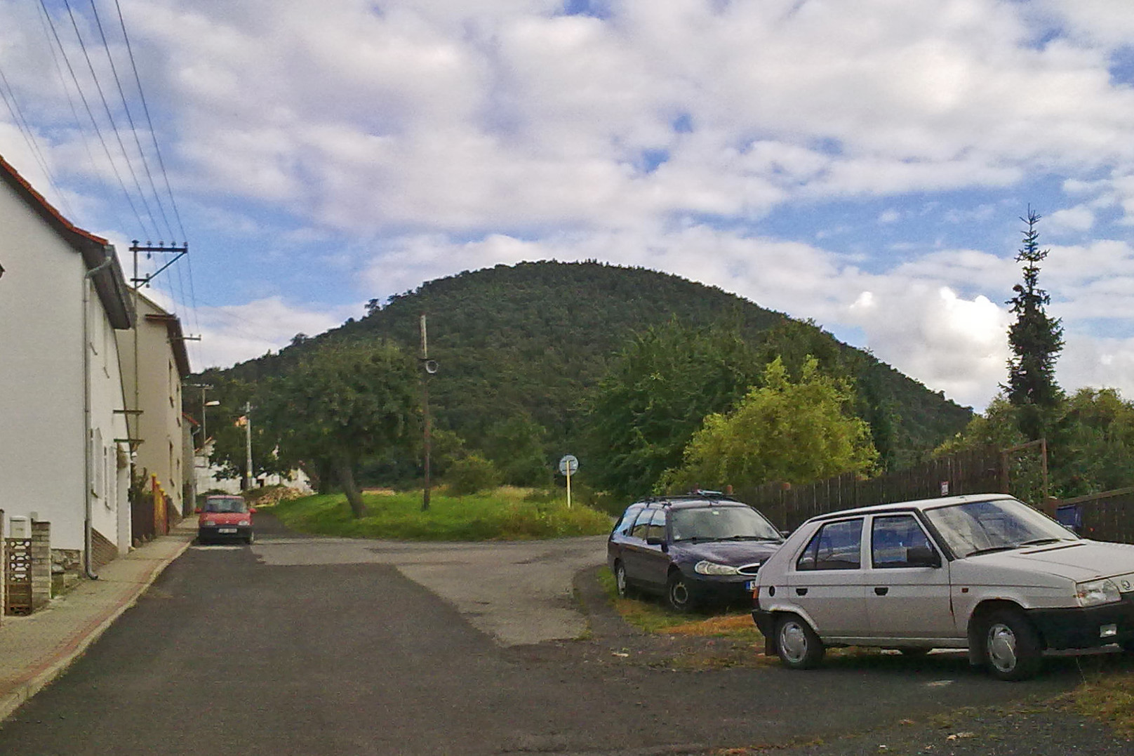 Parez Peak